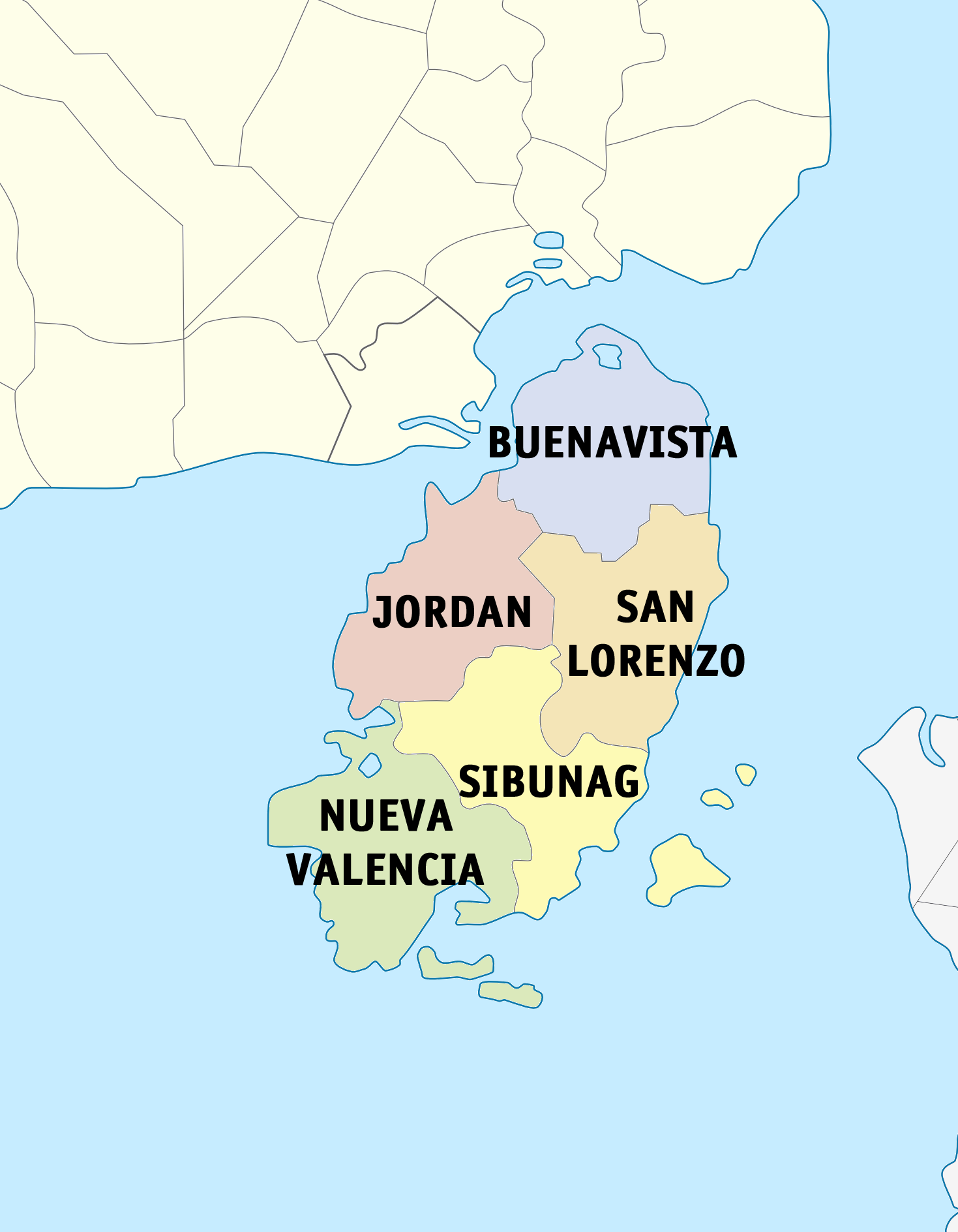 Political map of Guimaras, Philippines